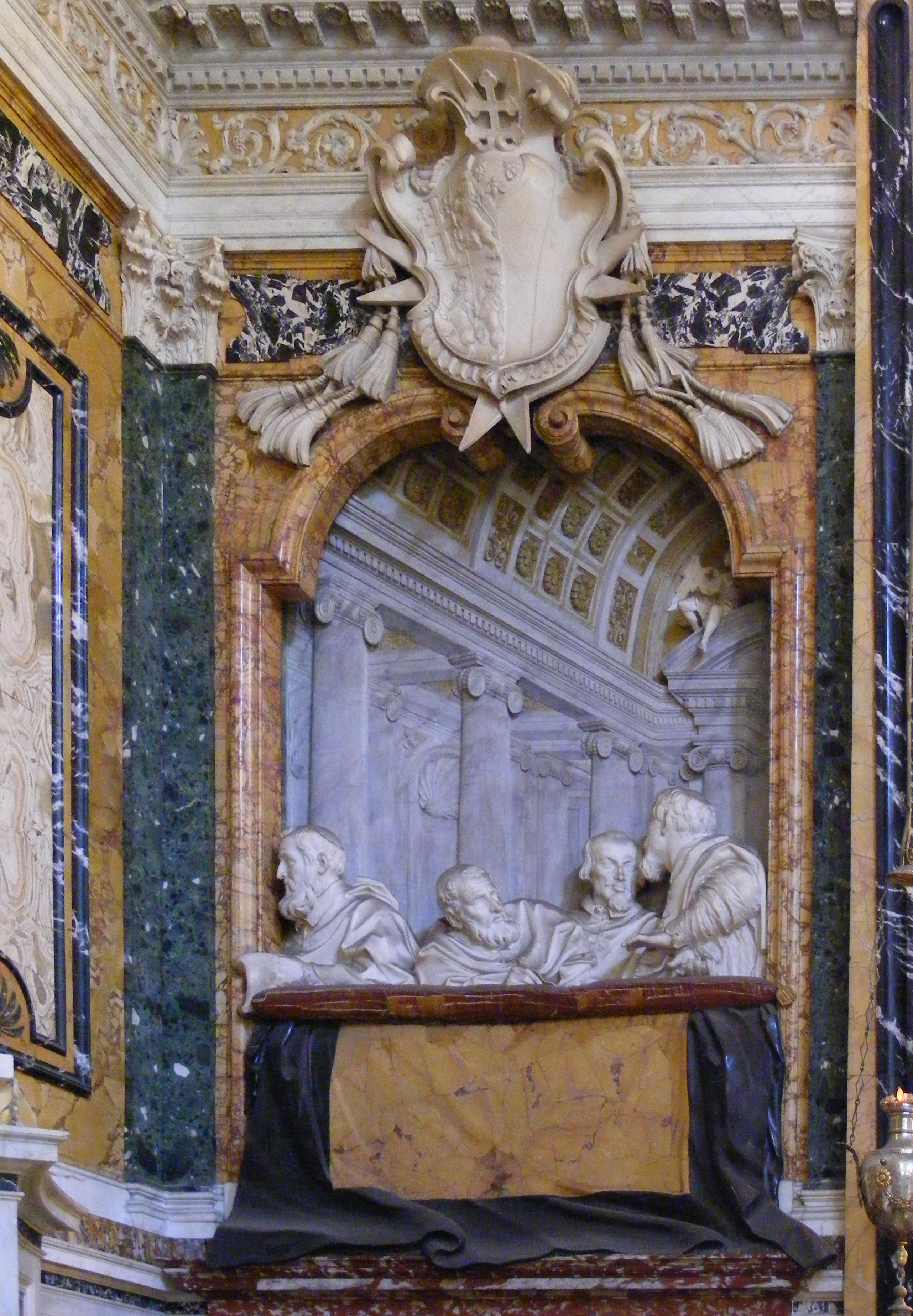 Cornaro chapel of Santa Maria della Vittoria, Rome: Sculptured spectators (right). Anove: Coat of arms of Federico Cornaro.